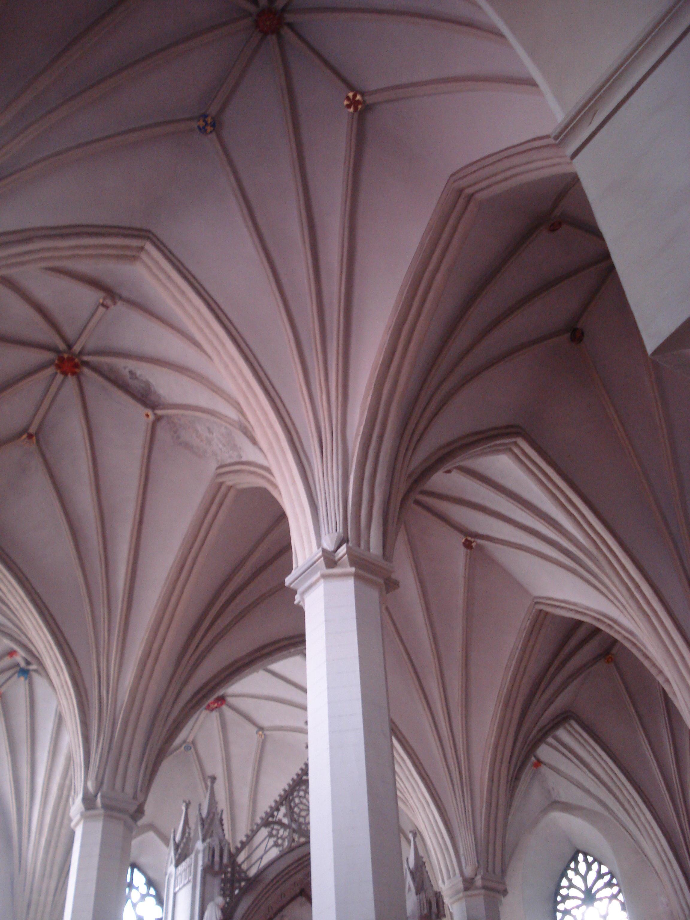 Gothic vaults at St. Olaf's church in Tallinn. Ceiling